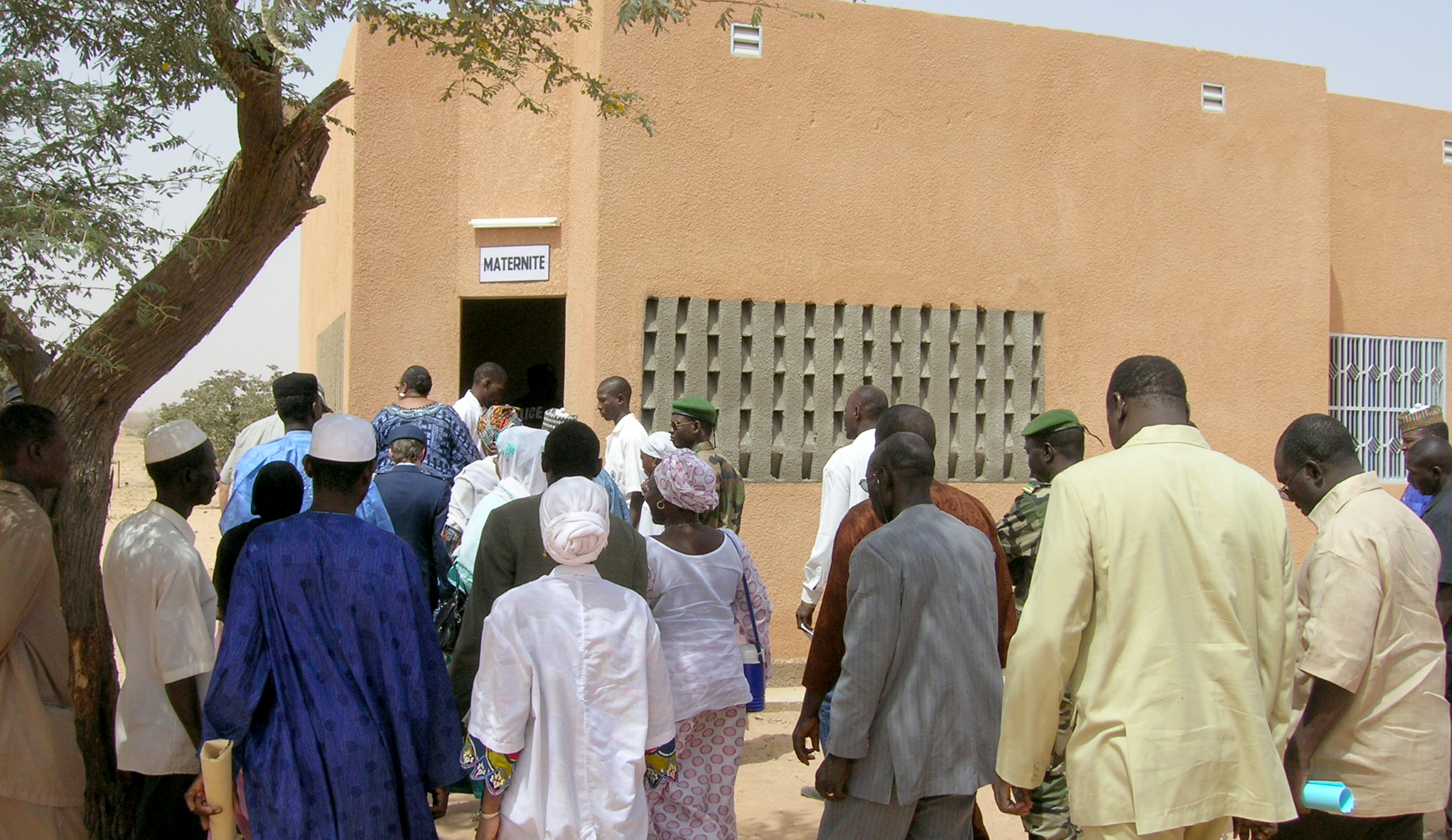 Foreign and Nigerien dignitaries visit the Dosso Maternity Clinic in Dosso, Niger. Original caption reads "Residents of Dosso, Niger, led by local leaders and Bernadette Allen, the U.S. ambassador to Niger, enter the main building of a new health clinic complex, including about $400,000 in renovation and new construction managed by the U.S. Army Corps of Engineers Europe District. The humanitarian assistance project was funded by the U.S. European and U.S. African commands. (Photo by Terry Bautista, Europe District Engineering and Construction chief) "